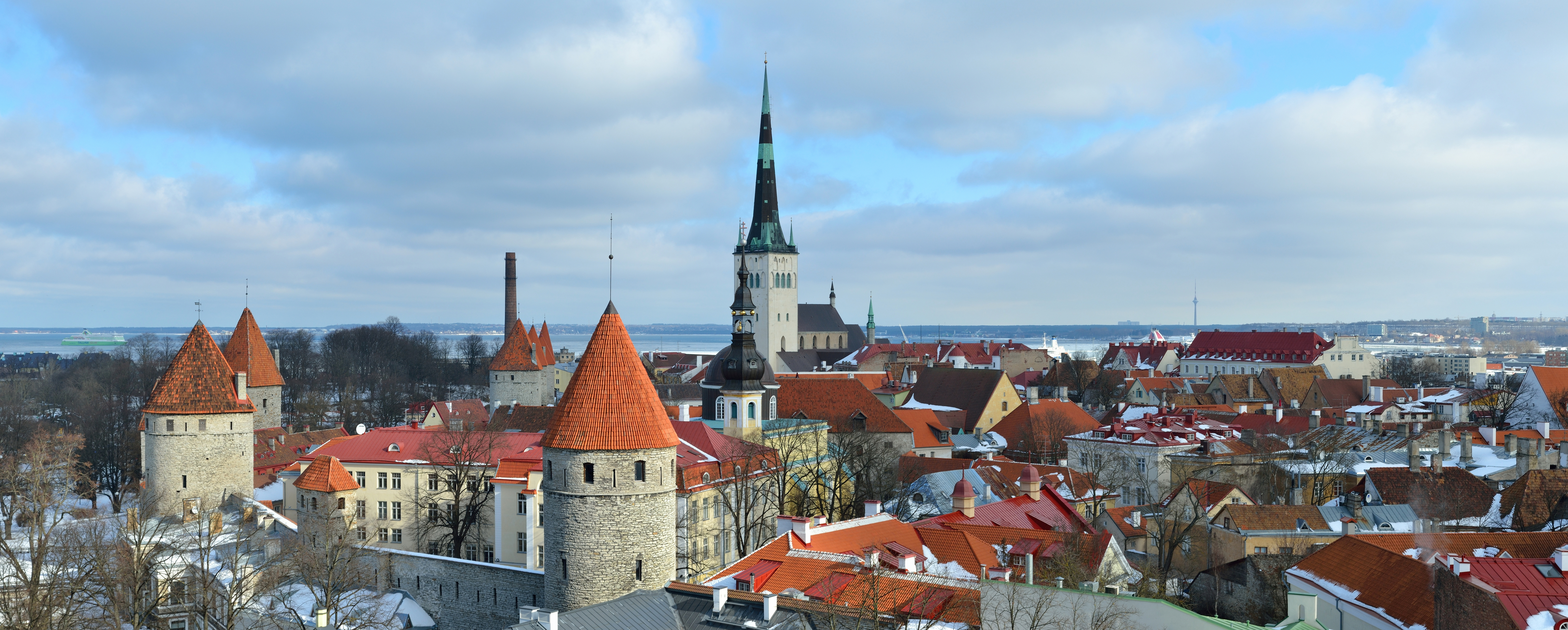 Old Town of Tallinn from Patkuli viewing platform. Includes the city walls